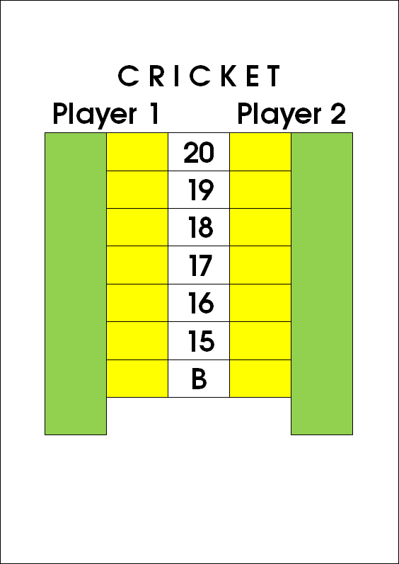 Typical Cricket (Darts) Scorecard